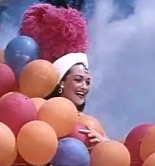 Screenshot of Dorothy Lamour from the trailer for the film The Greatest Show on Earth.